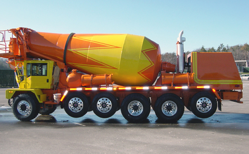 Scott Seitz. Ready Mix Concrete Truck. Built by Advance corporation. 2004.